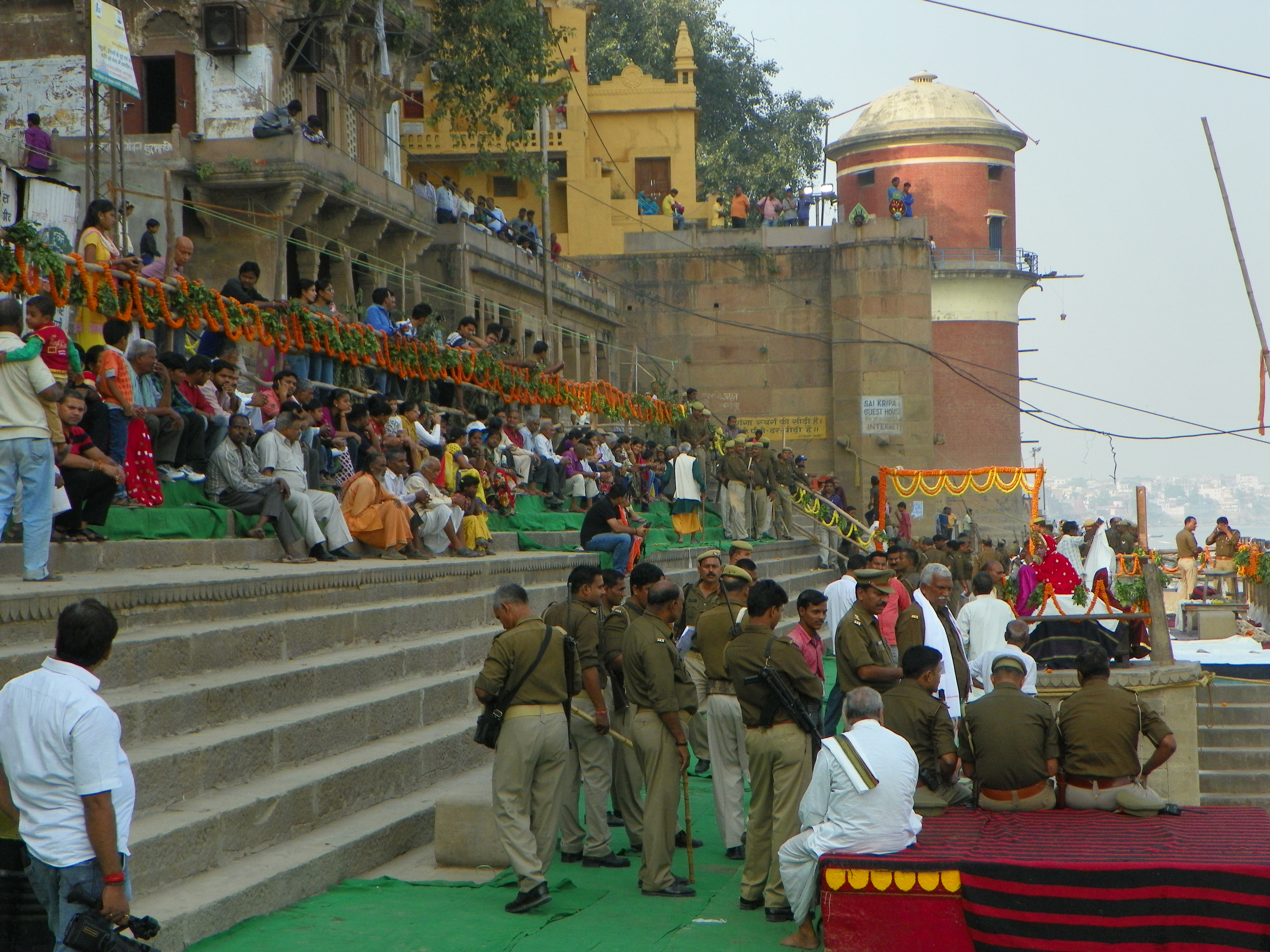 Nag Nathaiya is celebrated on the fourth lunar day of the dark fortnight of the Hindu month of Kartik (October–November). It commemorates the victory of Krishna over the serpent Kaliya. On this occasion, a large Kadamba tree (Neolamarckia cadamba) branch is planted on the banks of the Ganges so that a boy, playing the role of Krishna, can jump into the river on to the effigy representing Kaliya. He stands over the effigy in a dancing pose playing the flute, while an audience watches from the banks of the river or from boats. 2015in05-4vrns_200